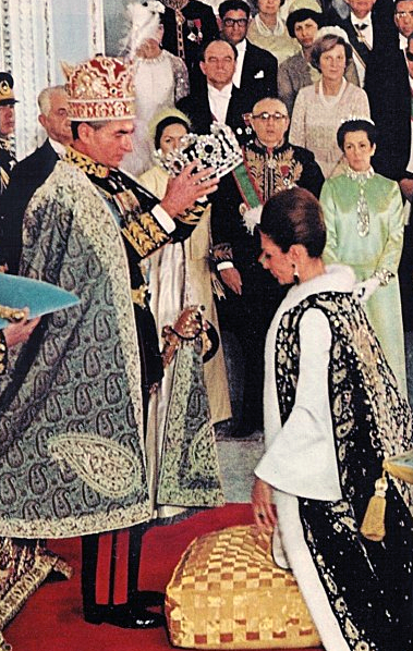 Publicity Photo published in 1967